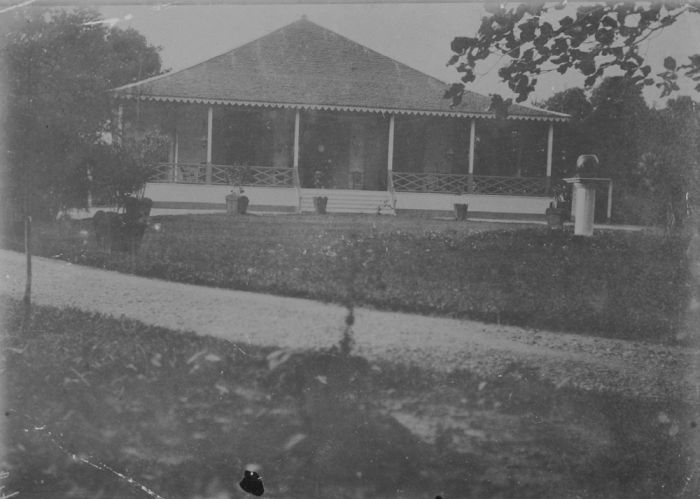 The house of the assistent-resident (civil servant) in Sintang, Borneo.